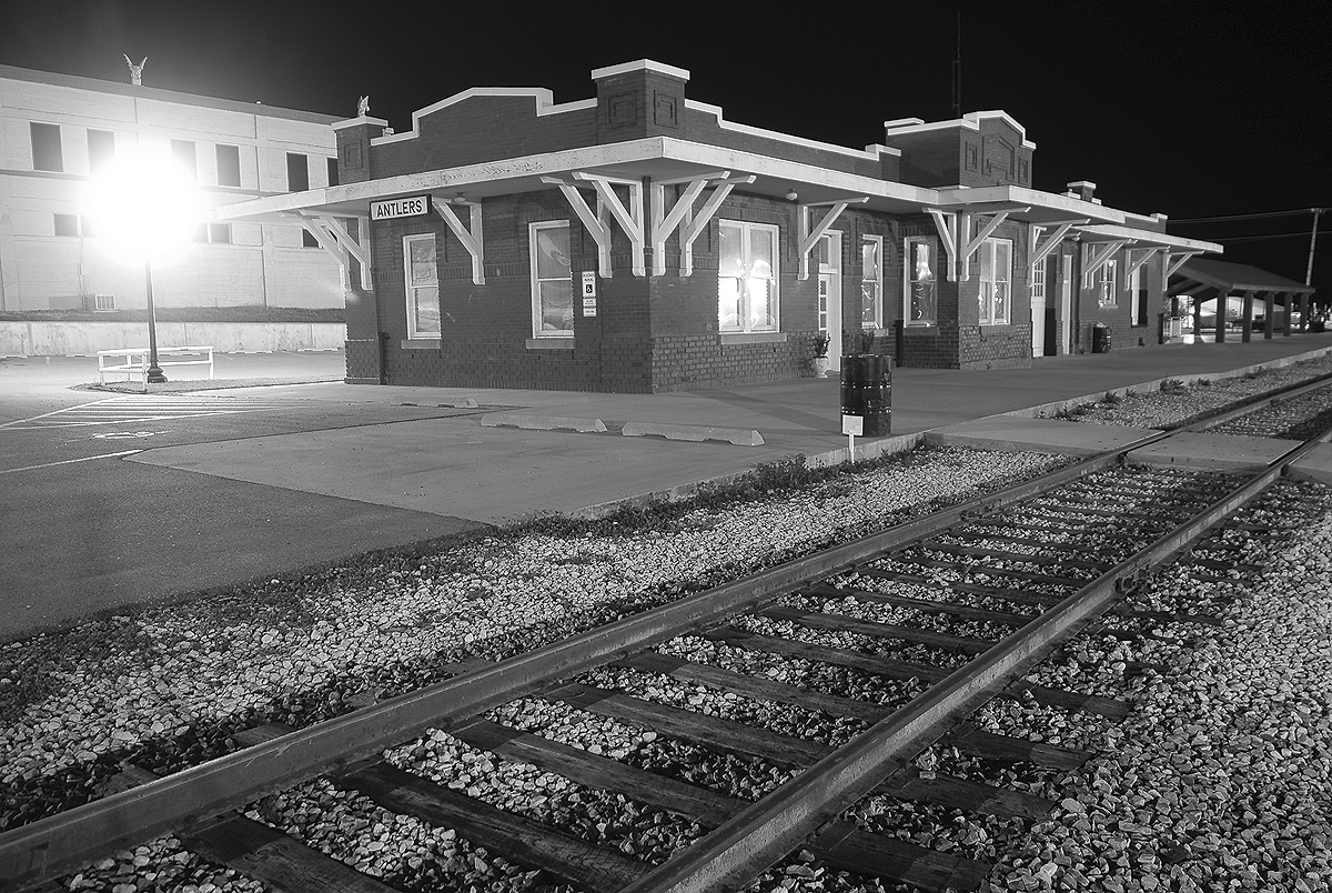 Antlers historic train station, which is on the national register of historic places